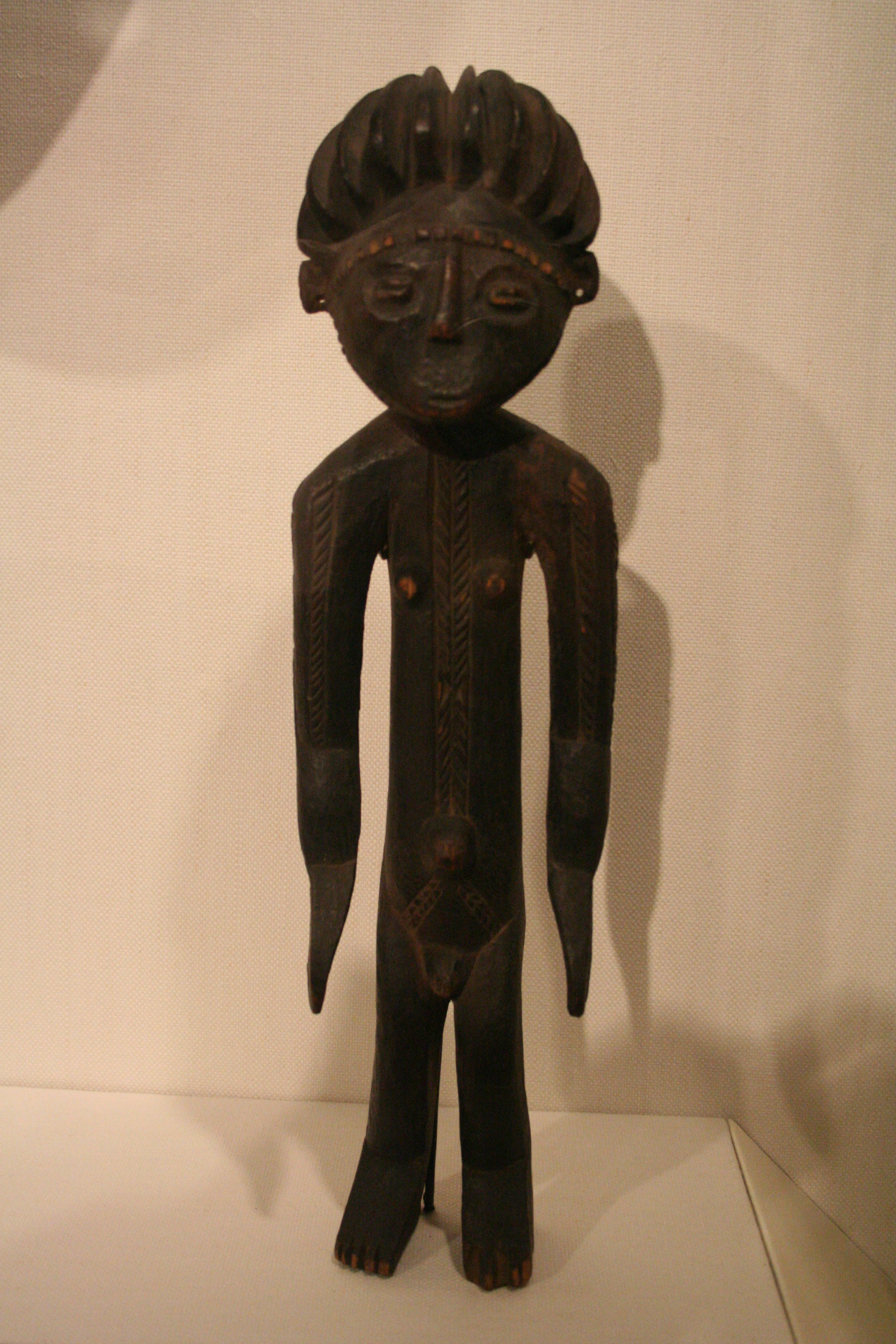 Zande. Standing Male Figure, 19th or 20th century. Wood, 14 3/4 x 4 x 7/16 in. (37.5 x 10.2 x 1.1 cm). Brooklyn Museum, Museum Expedition 1922, Robert B. Woodward Memorial Fund, 22.103.